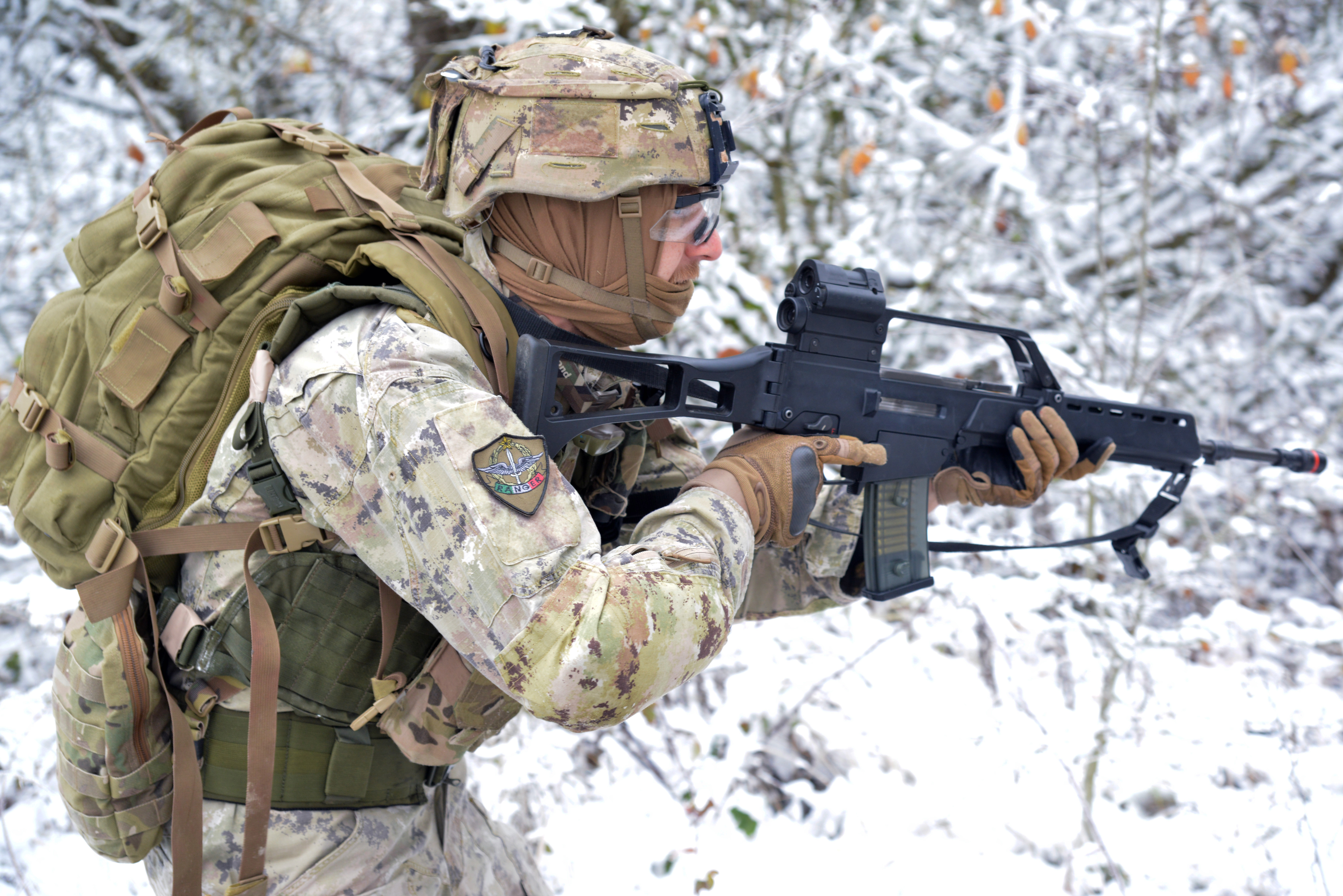 An Italian Ranger provides security during the Advanced Medical First Responder course at the International Special Training Centre in Pfullendorf, Germany, Nov. 24, 2015. The course introduces special forces and soldiers from similar type units to a variety of trauma lifesaving techniques with the goal of immediate management of the injured patient and preservation of his life for the first three hours after incident with no other medical support. The International Special Training provides centralized training for NATO Special Forces and similar units in Europe. Soldiers from nine member nations - Belgium, Denmark, Germany, Greece, Italy, the Netherlands, Norway, Turkey and the U.S. make up the current cadre of instructors at ISTC. (U.S. Army photo by: Visual Information Specialist Adam Sanders/RELEASED)